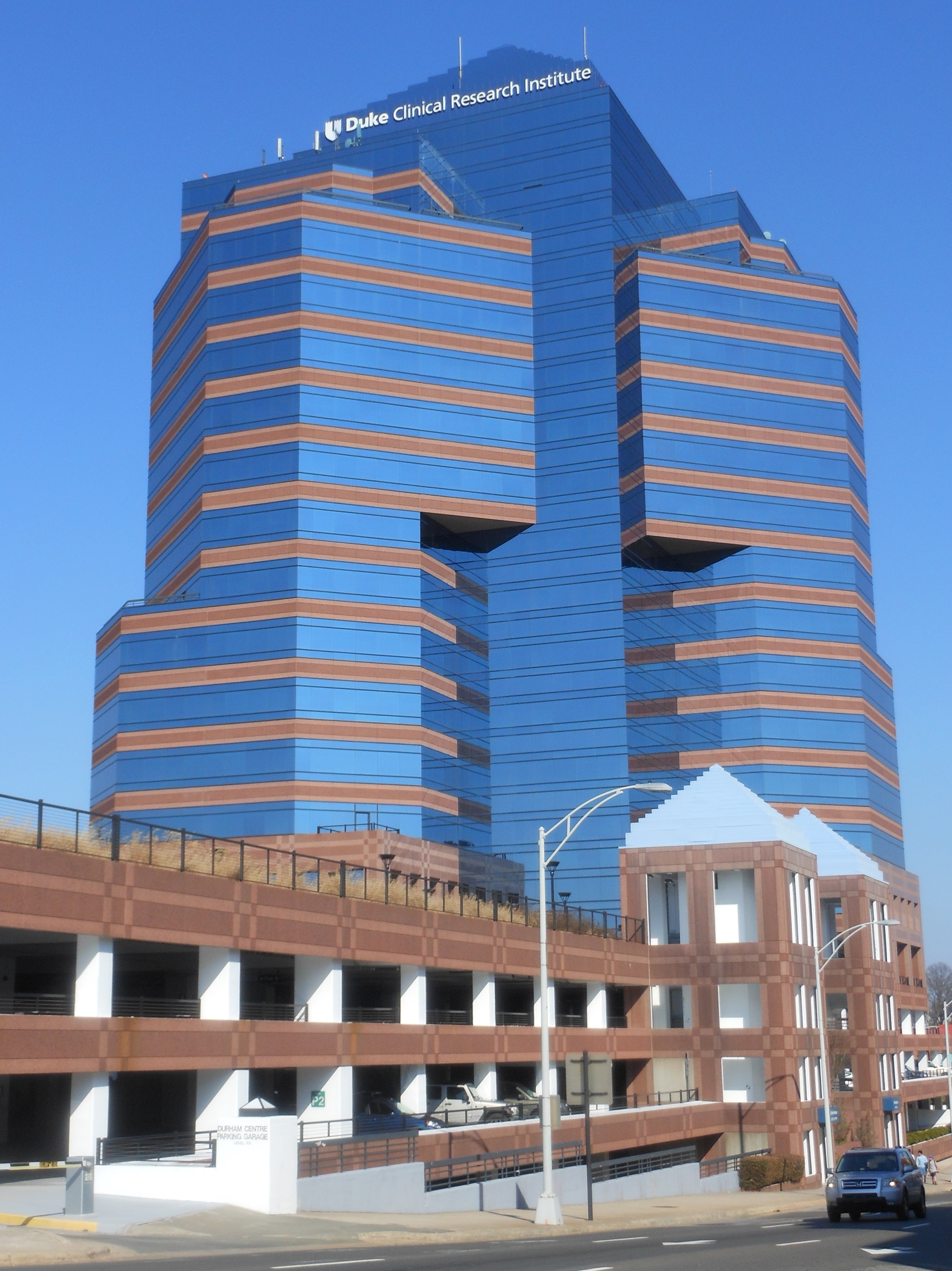 Durham University Tower